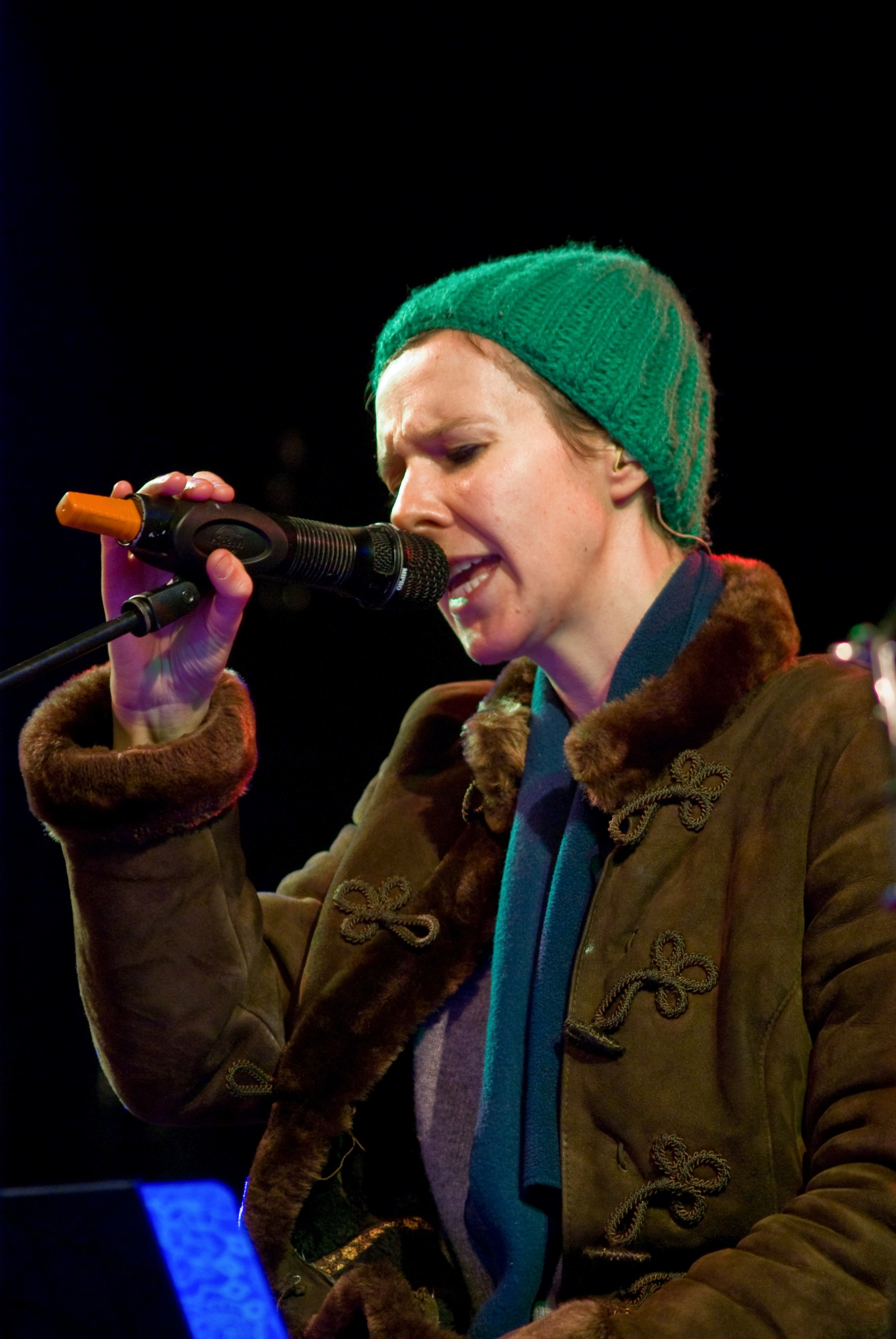 Austrian band Papermoon (Edina Thalhammer). Concert at Christmas in the park in St. Pölten on 6 December 2008.